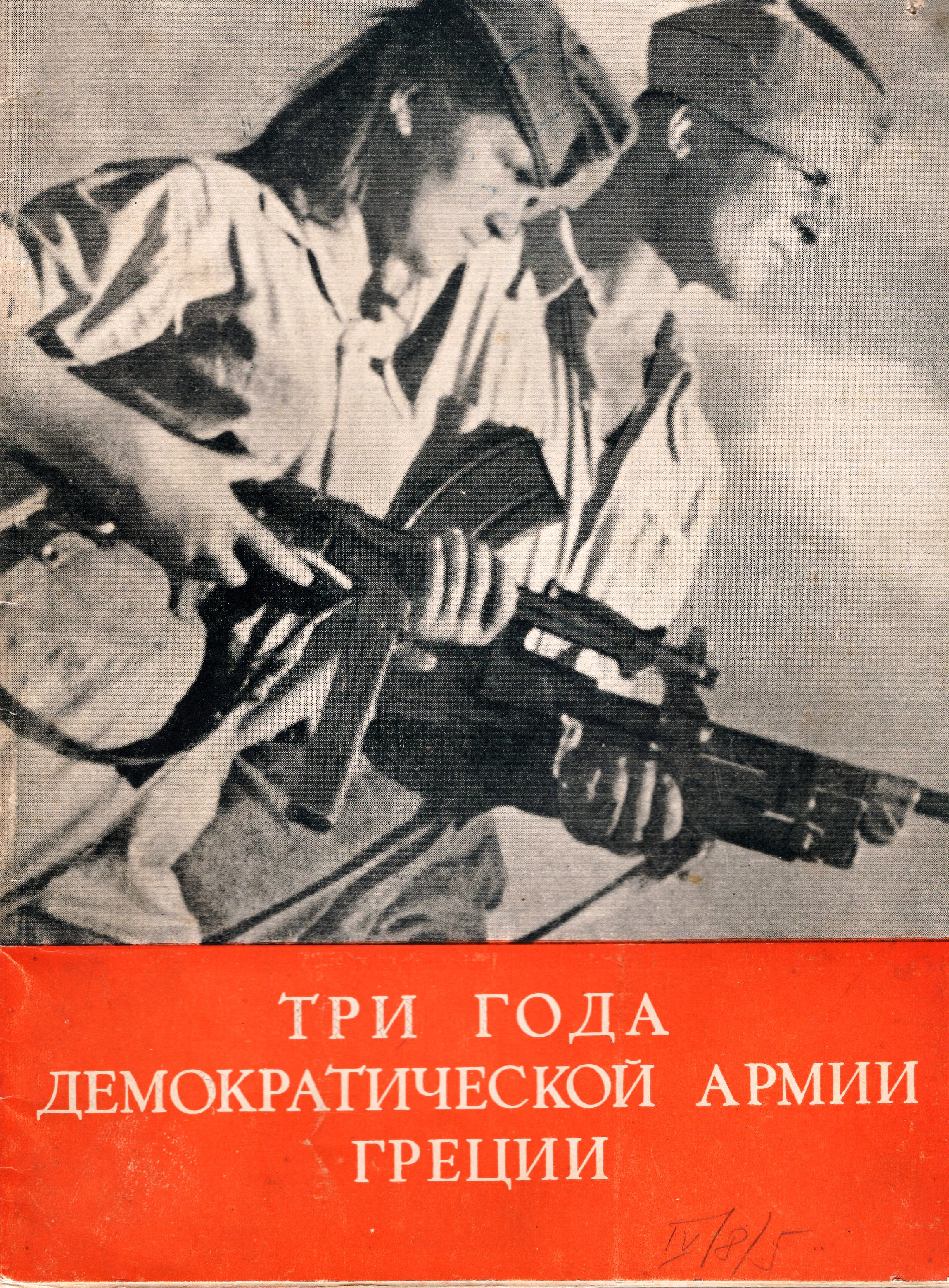 Cover page of Magazine about Democratic Army of Greece 1949 This media file is produced by Wikipedian in Residence in Category:Wikipedian in Residence at DARM in 2016.